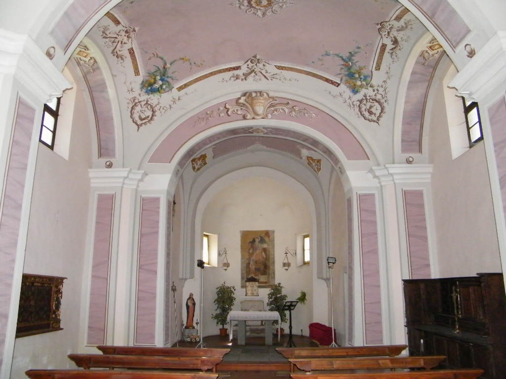 Inside. Church of St. Stephen. Cividate Camuno, Val Camonica